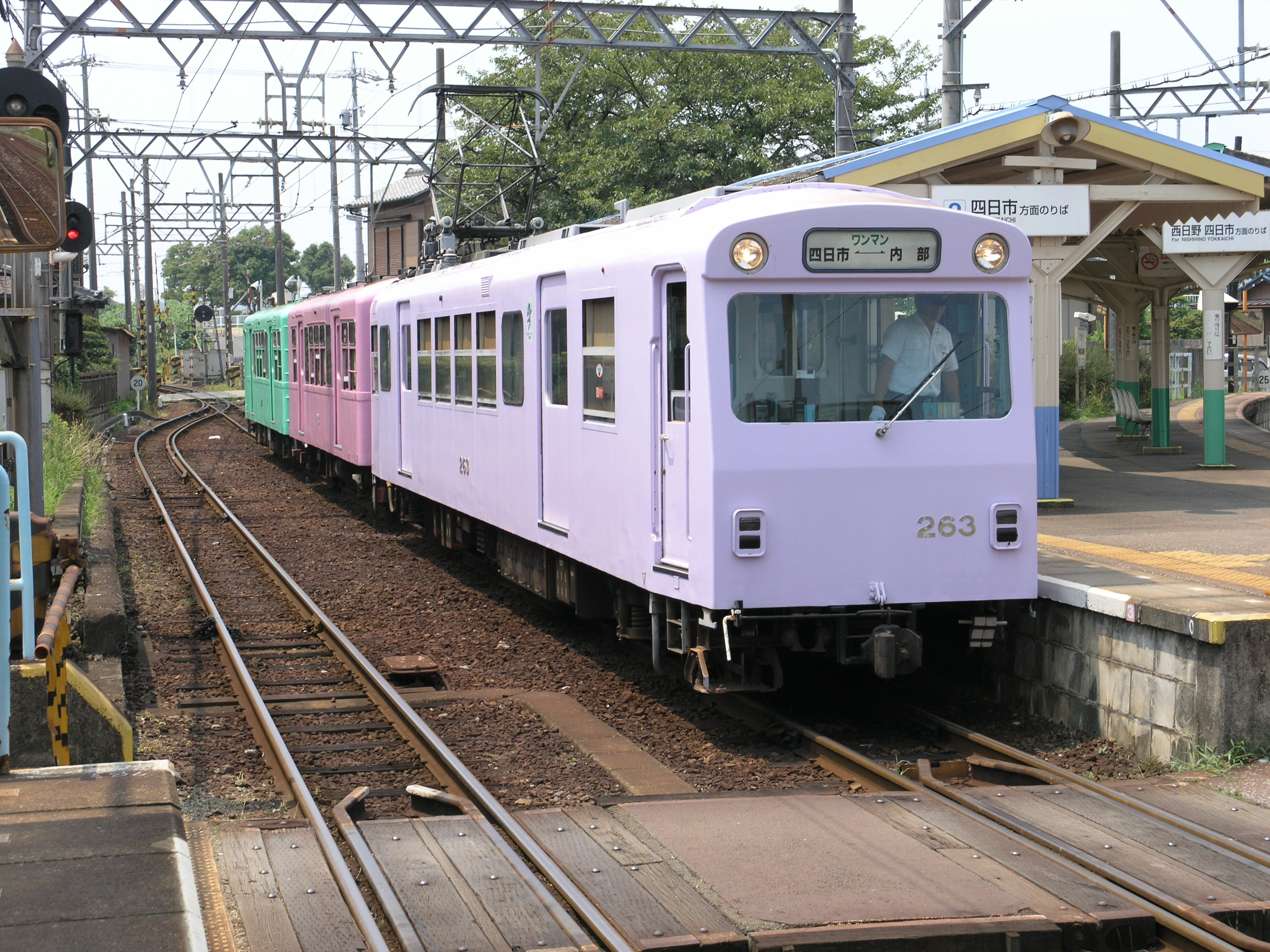 Kintetsu 260 series EMU at Hinaga Station